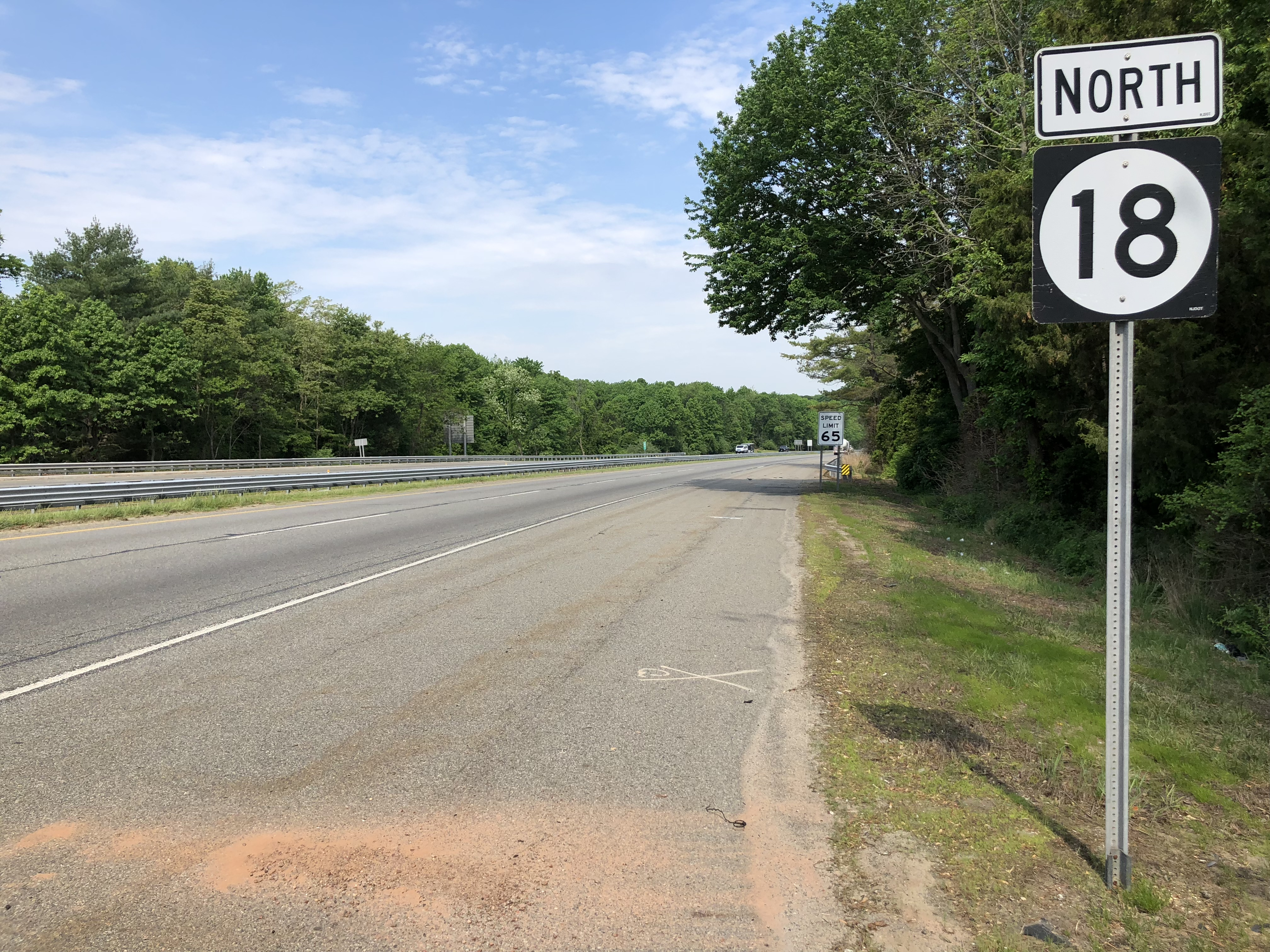 View north along New Jersey State Route 18 just north of Exit 25 in Marlboro Township, Monmouth County, New Jersey